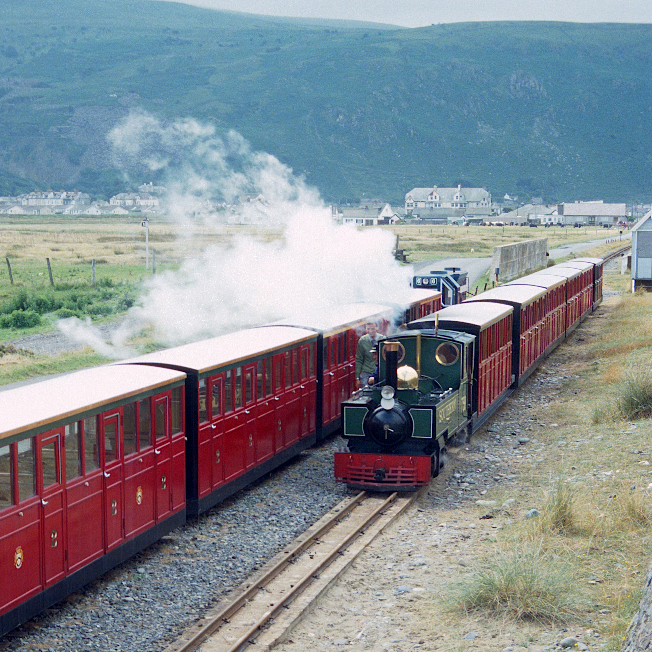 Two Fairbourne Railway trains in the passing loop at Loop halt